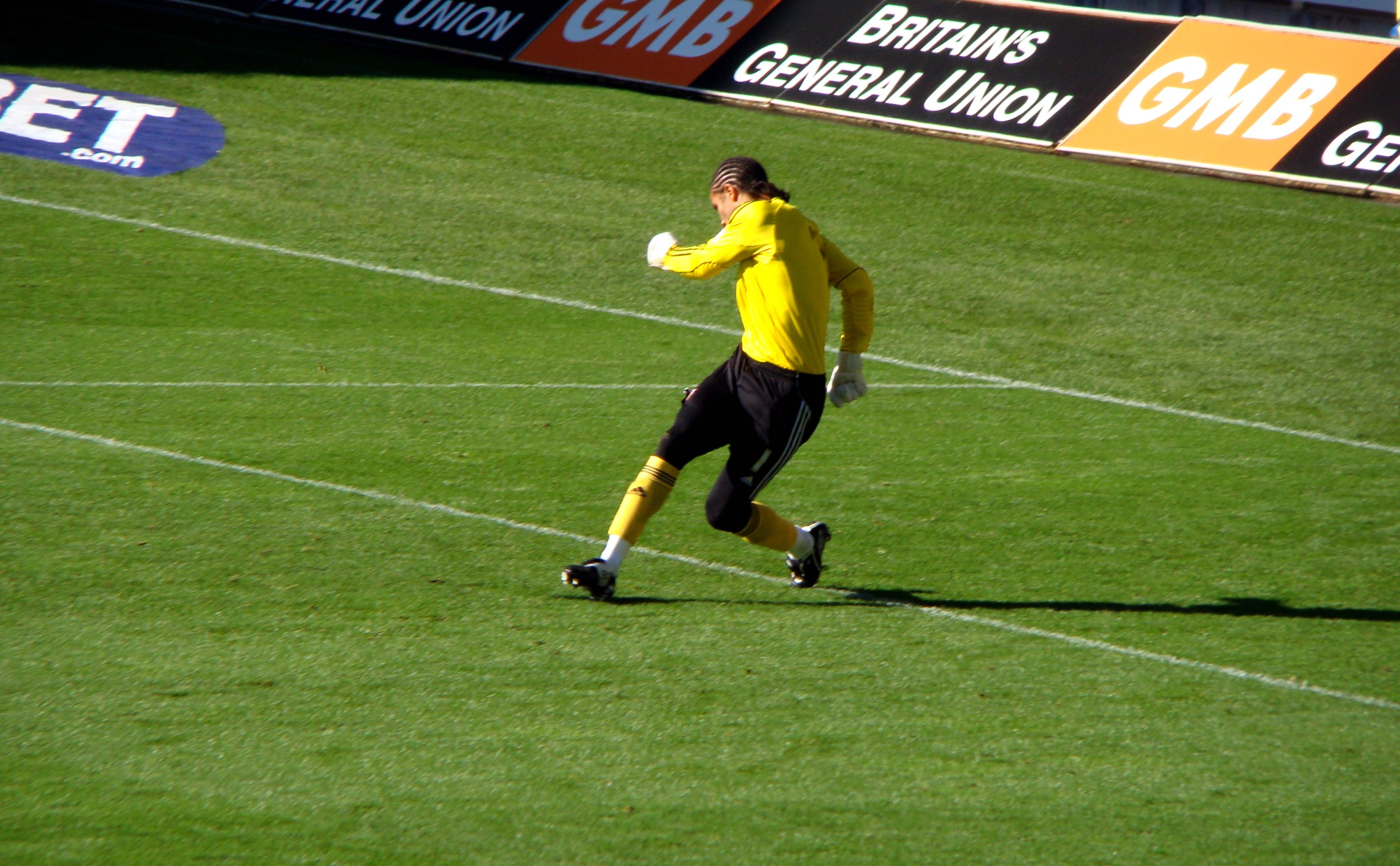 David James taking a goal kick during the match between Cardiff City and Bristol City on 16 October 2010